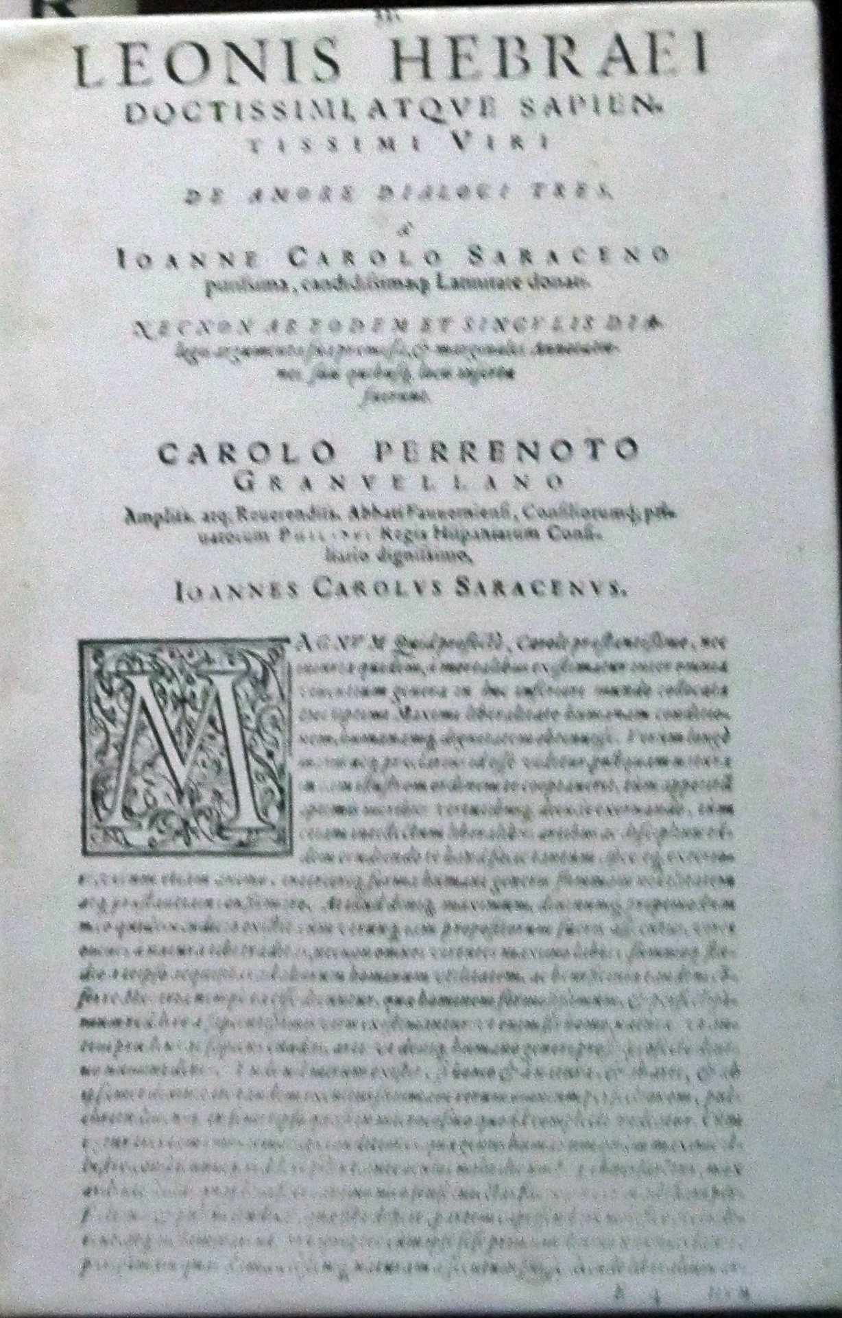 Dialogi de Amore by Judah Abrabanel Leone Ebreo, Basle, 1587